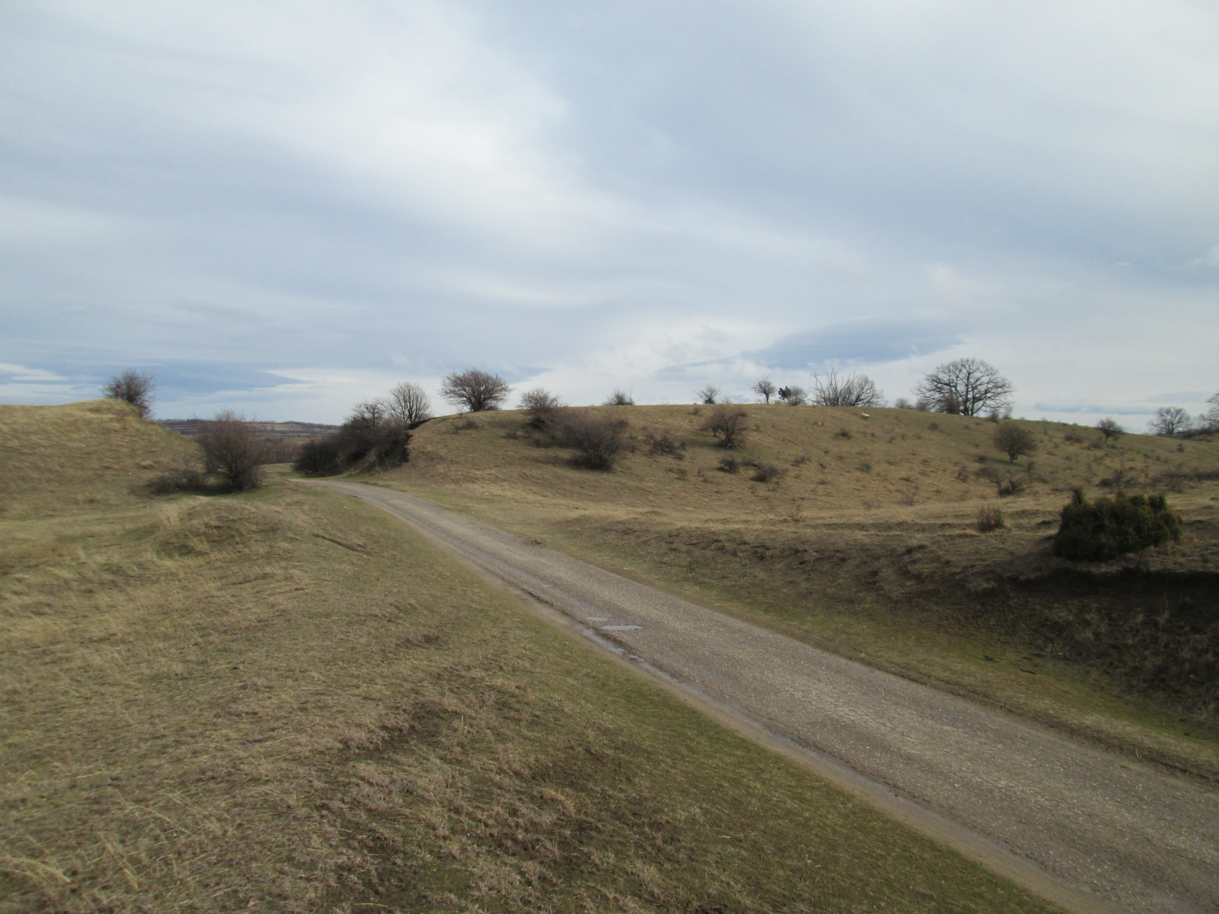 Special Nature Reserve Deliblatska peščara. Српски (ћирилица): Специјални резерват природе Делиблатска пешчара.